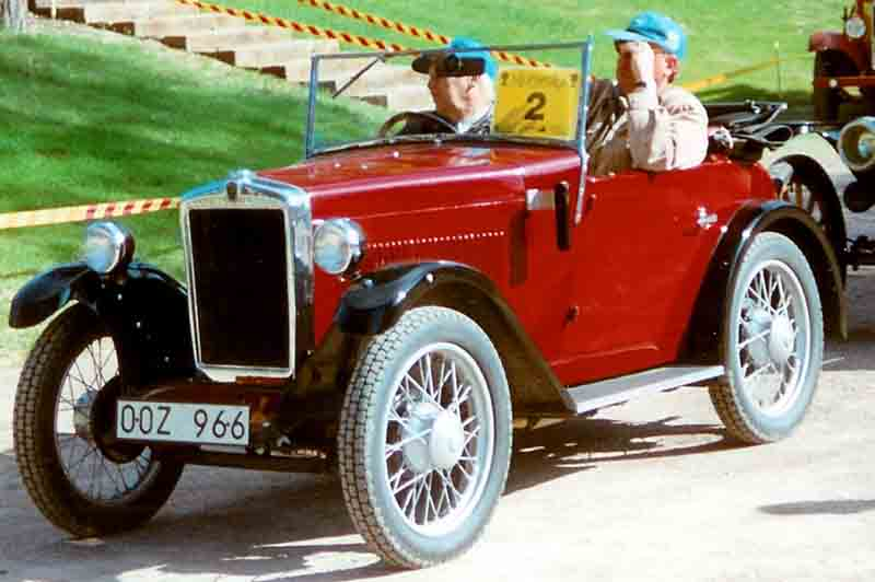 Morris Minor 2-Seater 1932